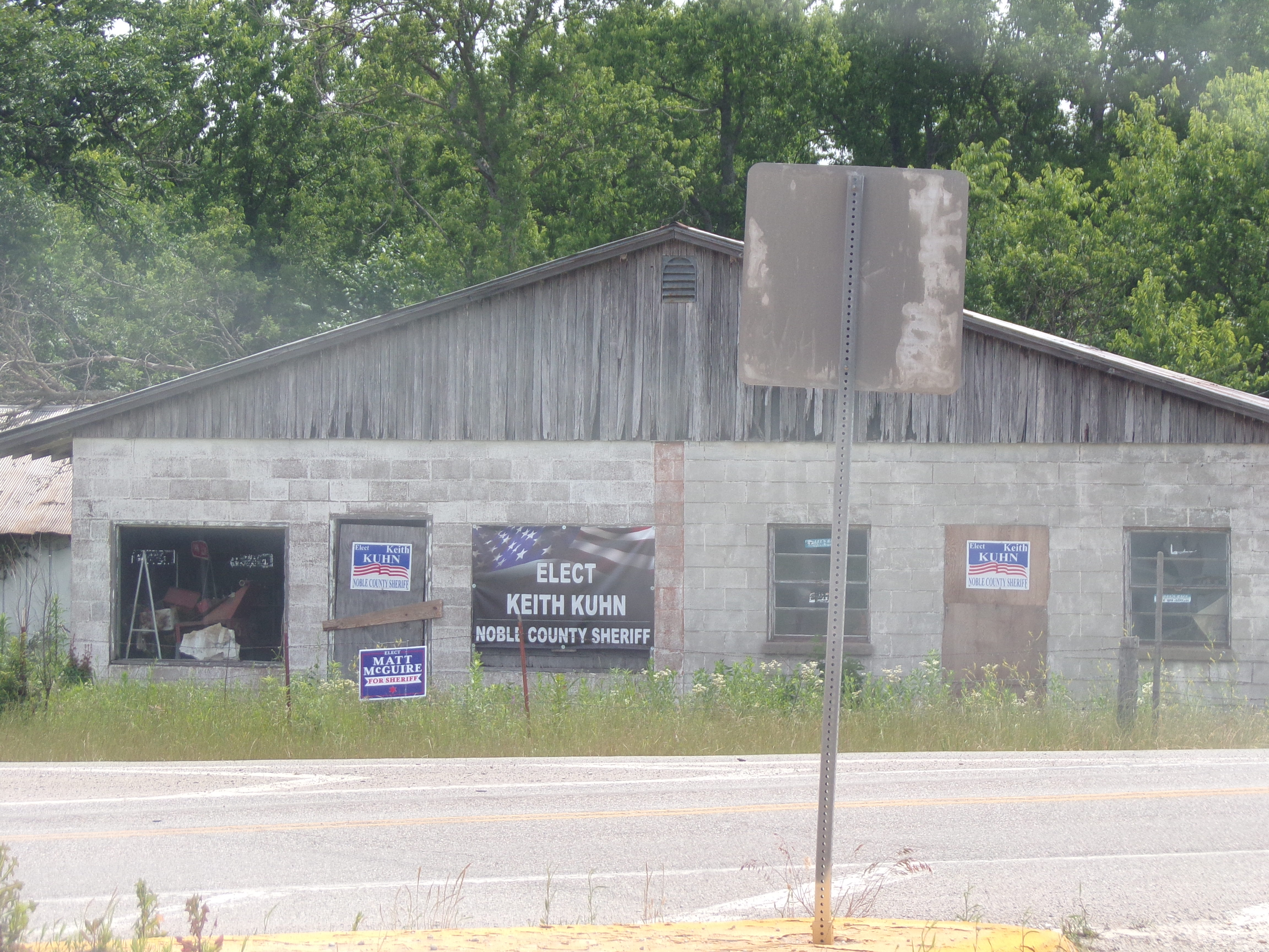 I took this picture in Morrison, Oklahoma.